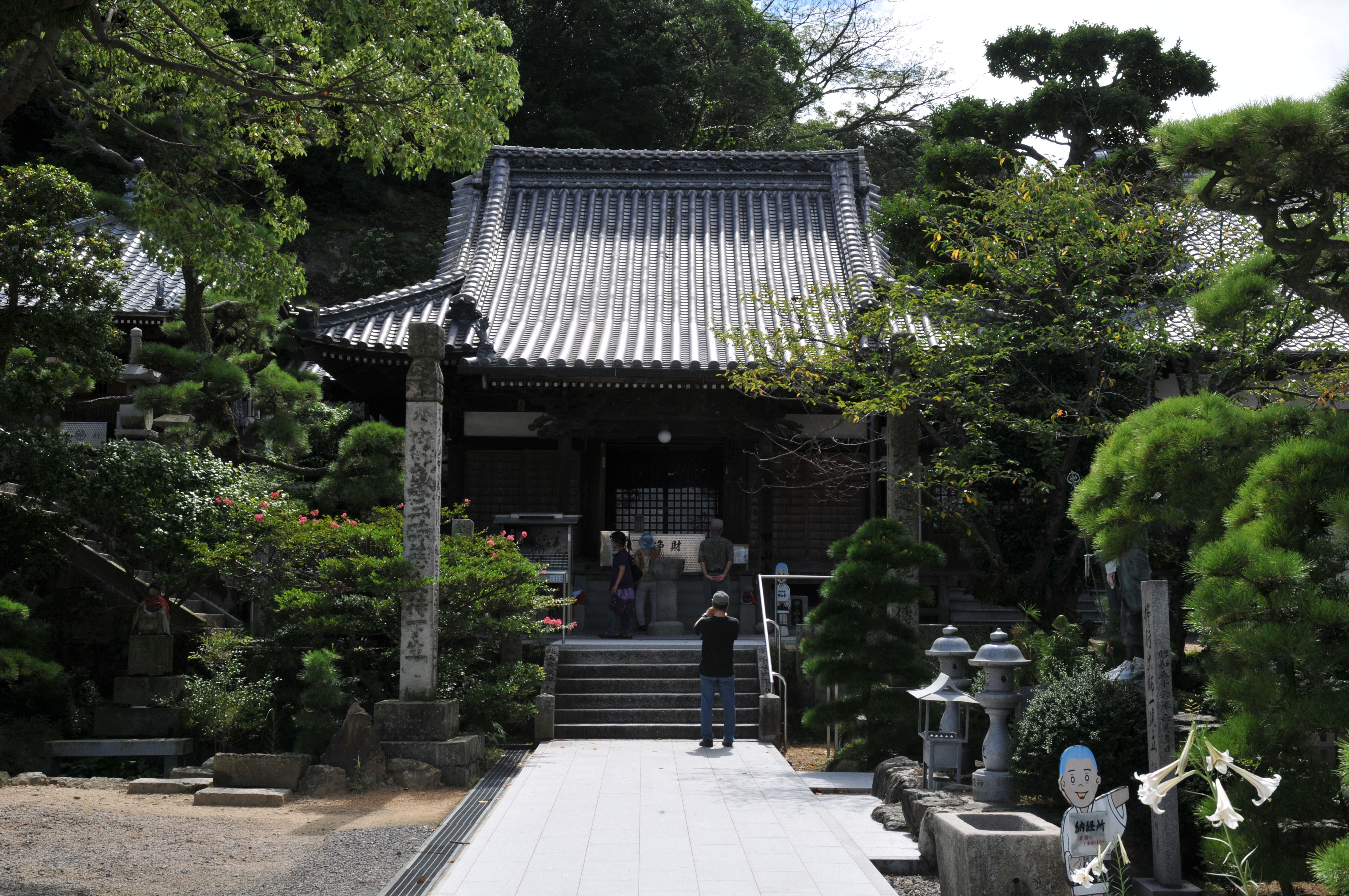 Main temple, Kōyama-ji